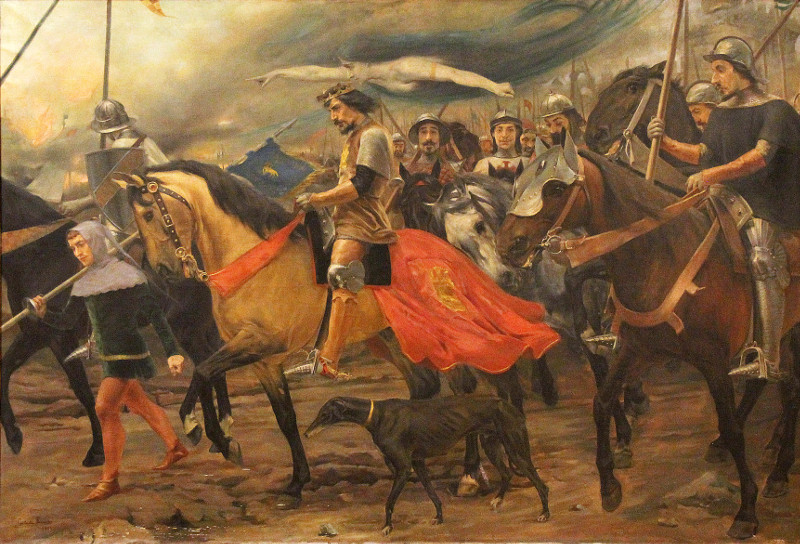 "The Plague makes the Castillians lift their Siege over Lisbon" (1901), by Constantino Fernandes. The painting is a depiction of an historical event that took place during the Crisis of 1383-1385 (Portuguese Interregnum).